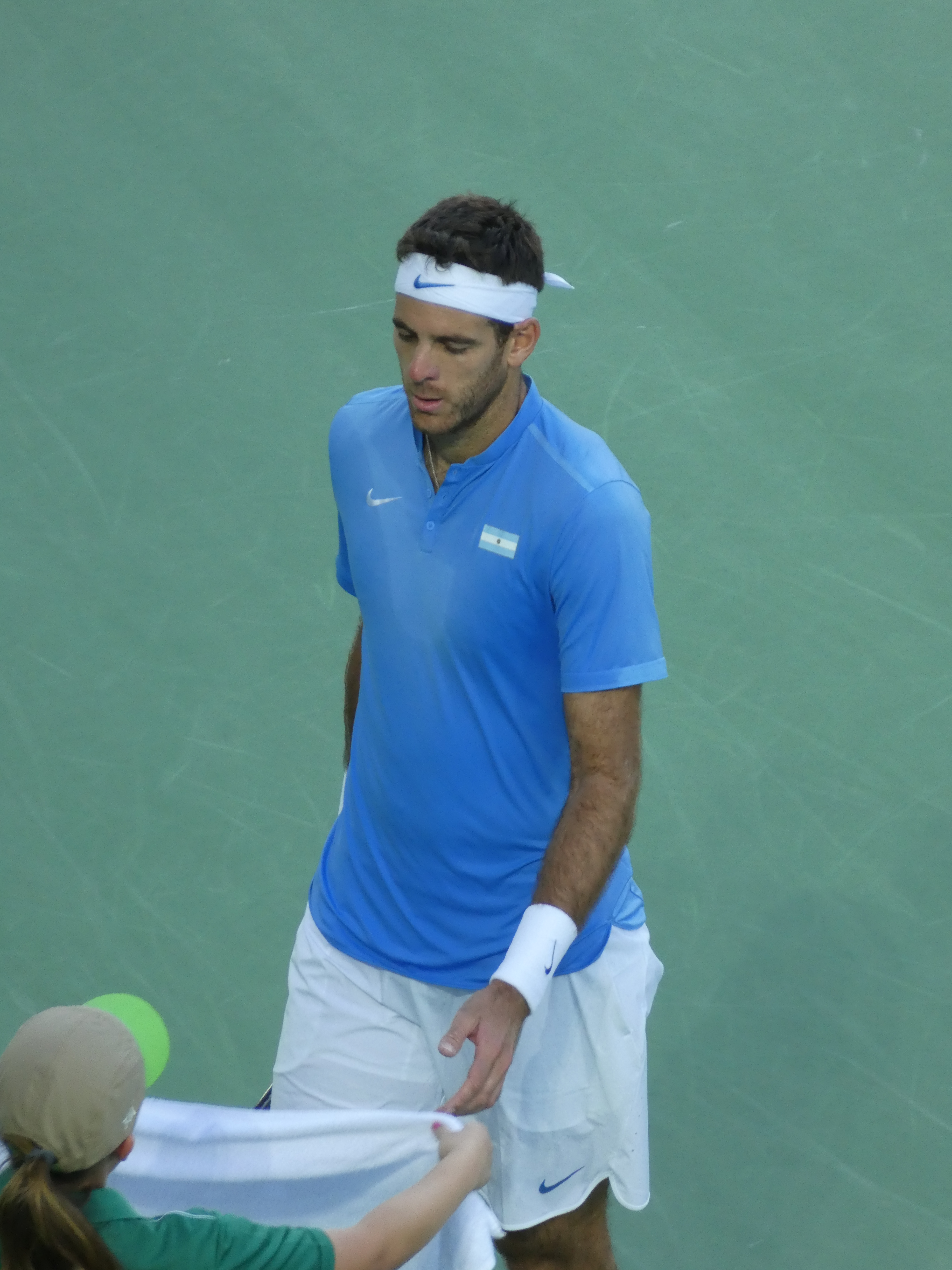 Juan Martín del Potro during the 2016 Summer Olympics semi-final against Rafael Nadal